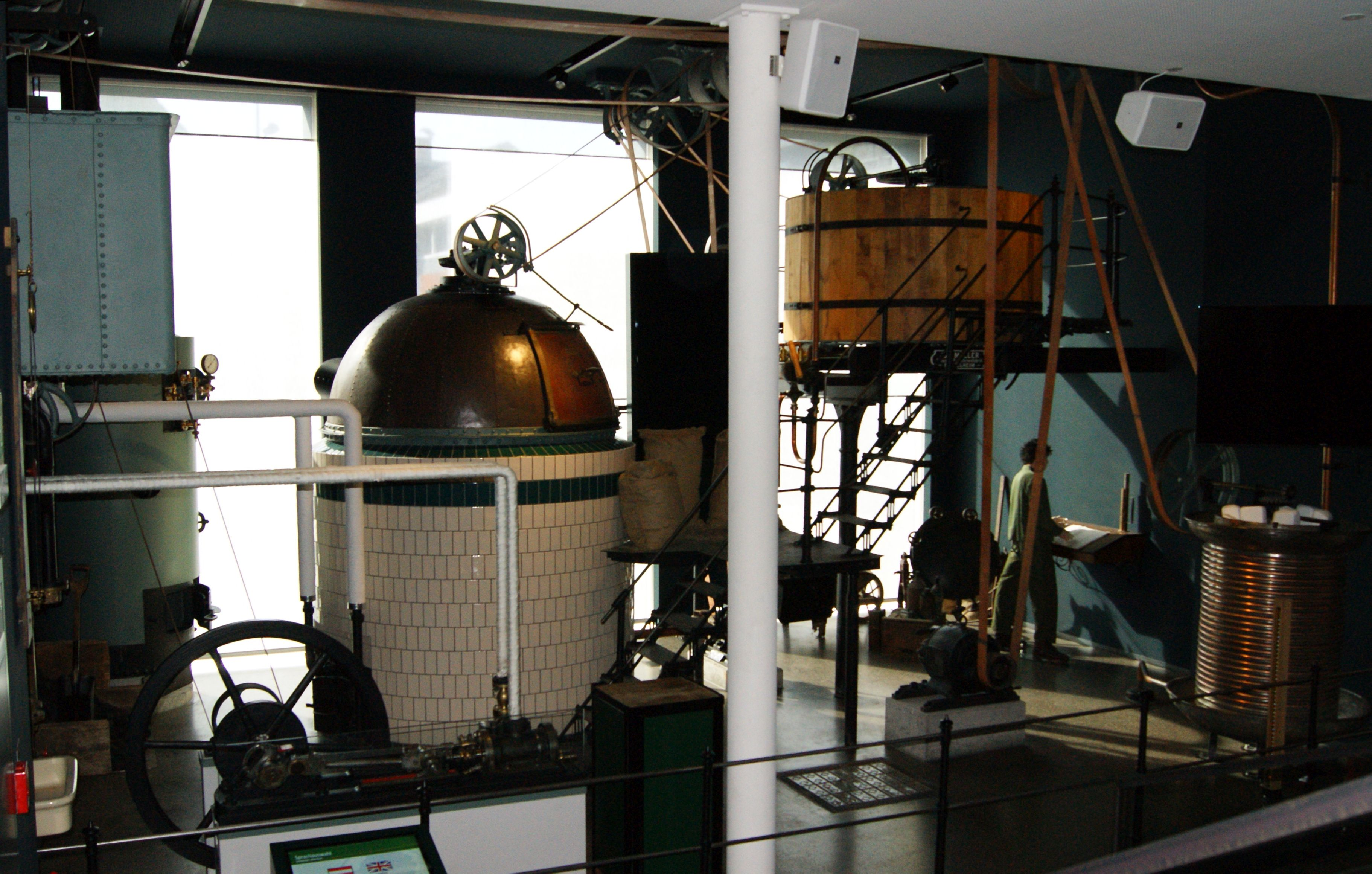 Mohren beer experienceworld in Dornbirn, Vorarlberg, Austria. Restored microbrewery.